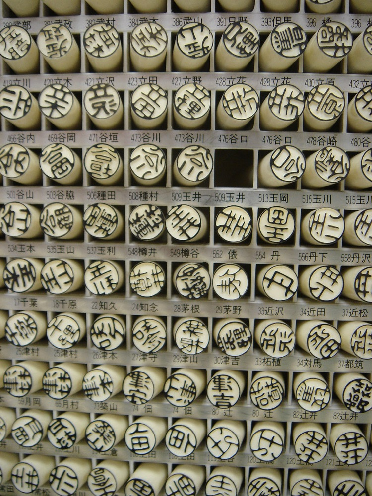 Japanese seals